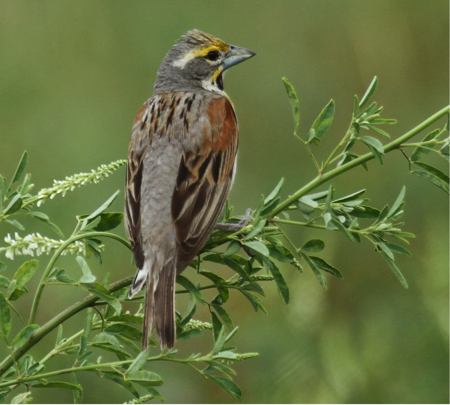 Miller Meadow - Maywood, Illinois